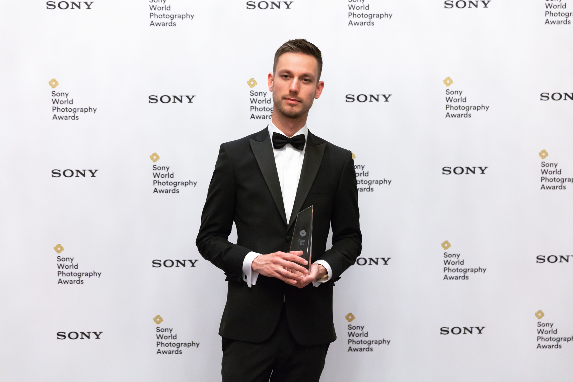 Martin Stranka, winner of Sony World Photography Awards, London, 2019